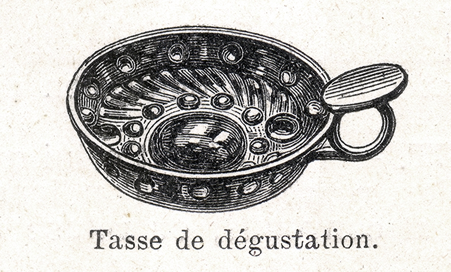 Wine testing cup. Picture from "Dictionnaire encyclopédique de l'épicerie et des industries annexes" par Albert Seigneurie, édité par "L'Épicier" en 1904, page 258.